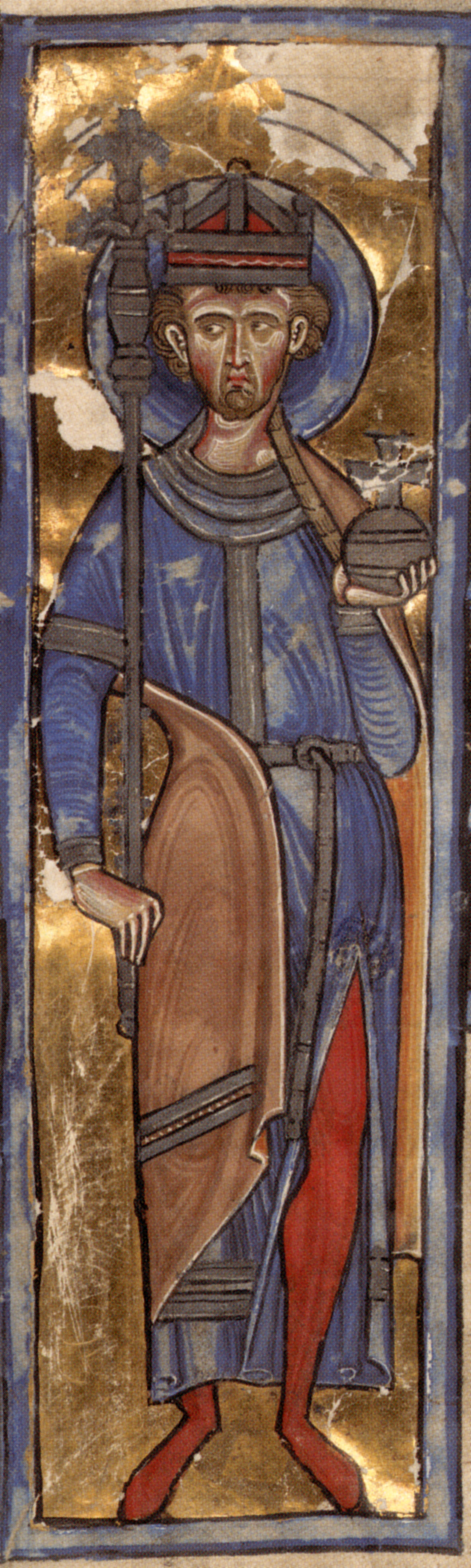 St Oswald, crowned as a king. King Oswald of Northumbria, d. 642